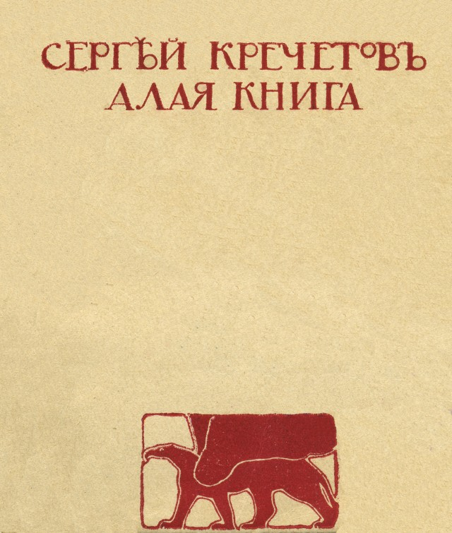 Cover of "Red Book" (Алая Книга) by Sergey Sokolov (Krechetov)